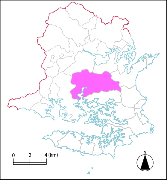 This is the map of Agocho-Ugata, Shima, Mie, Japan.